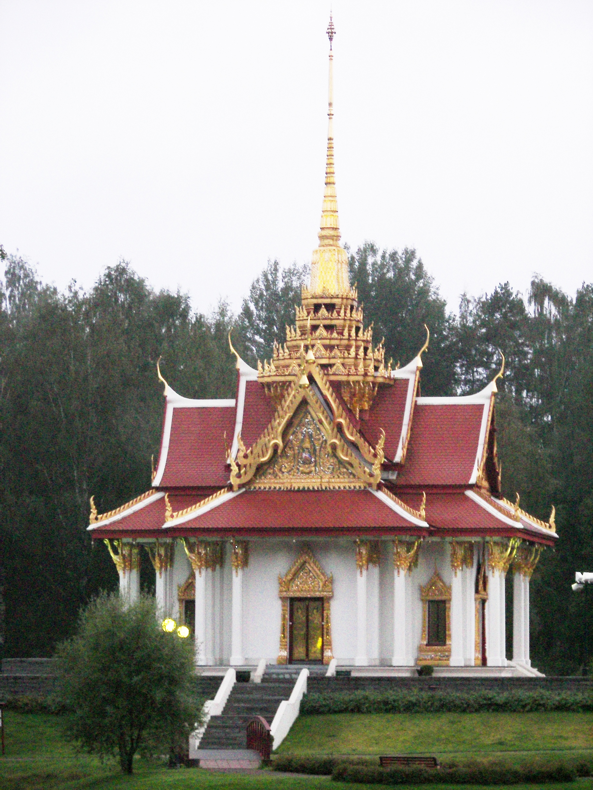 The pavilion of Chulalongkorn south of Bispgården, Sweden